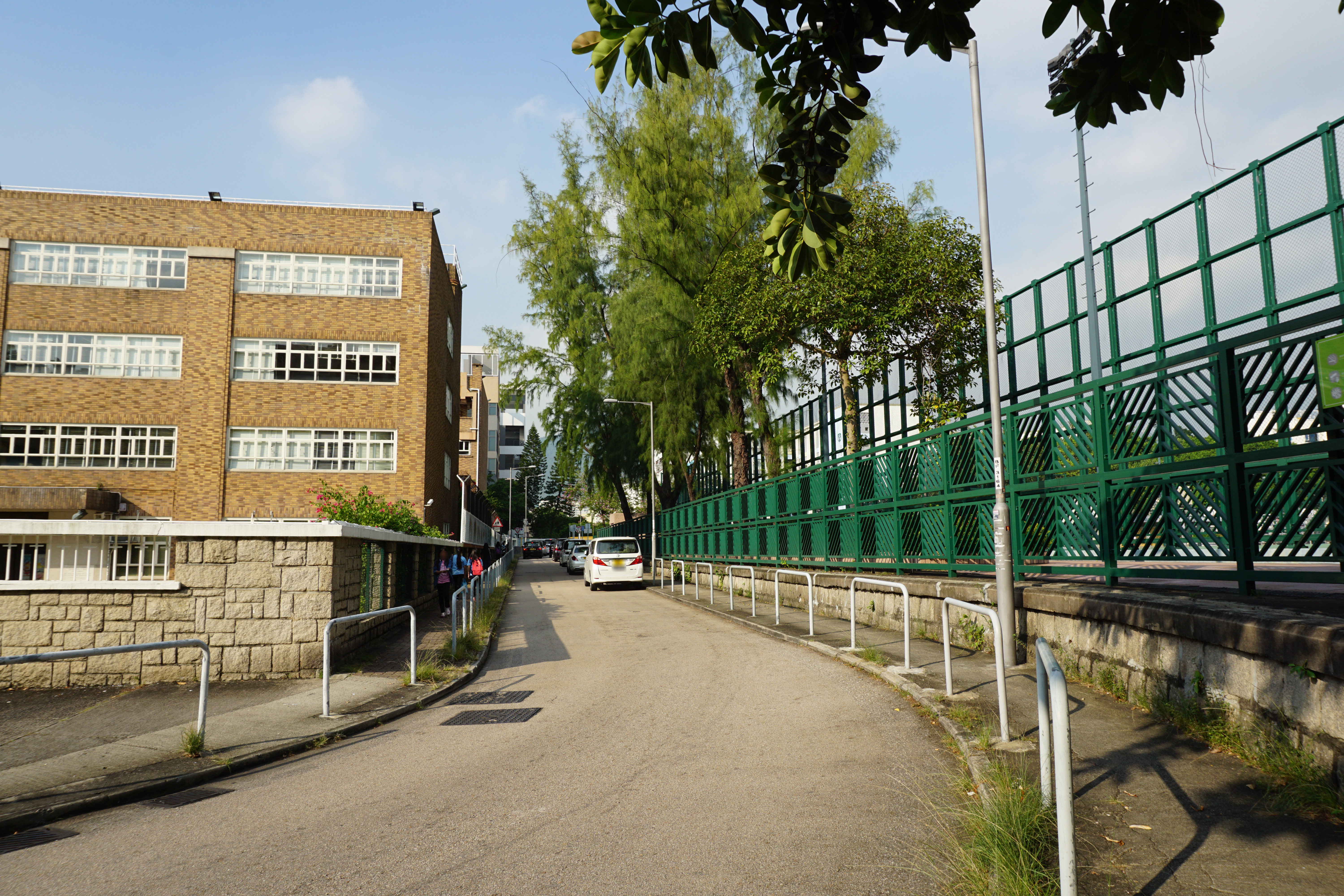 Ho Tung Road in Kowloon Tsai, Hong Kong.